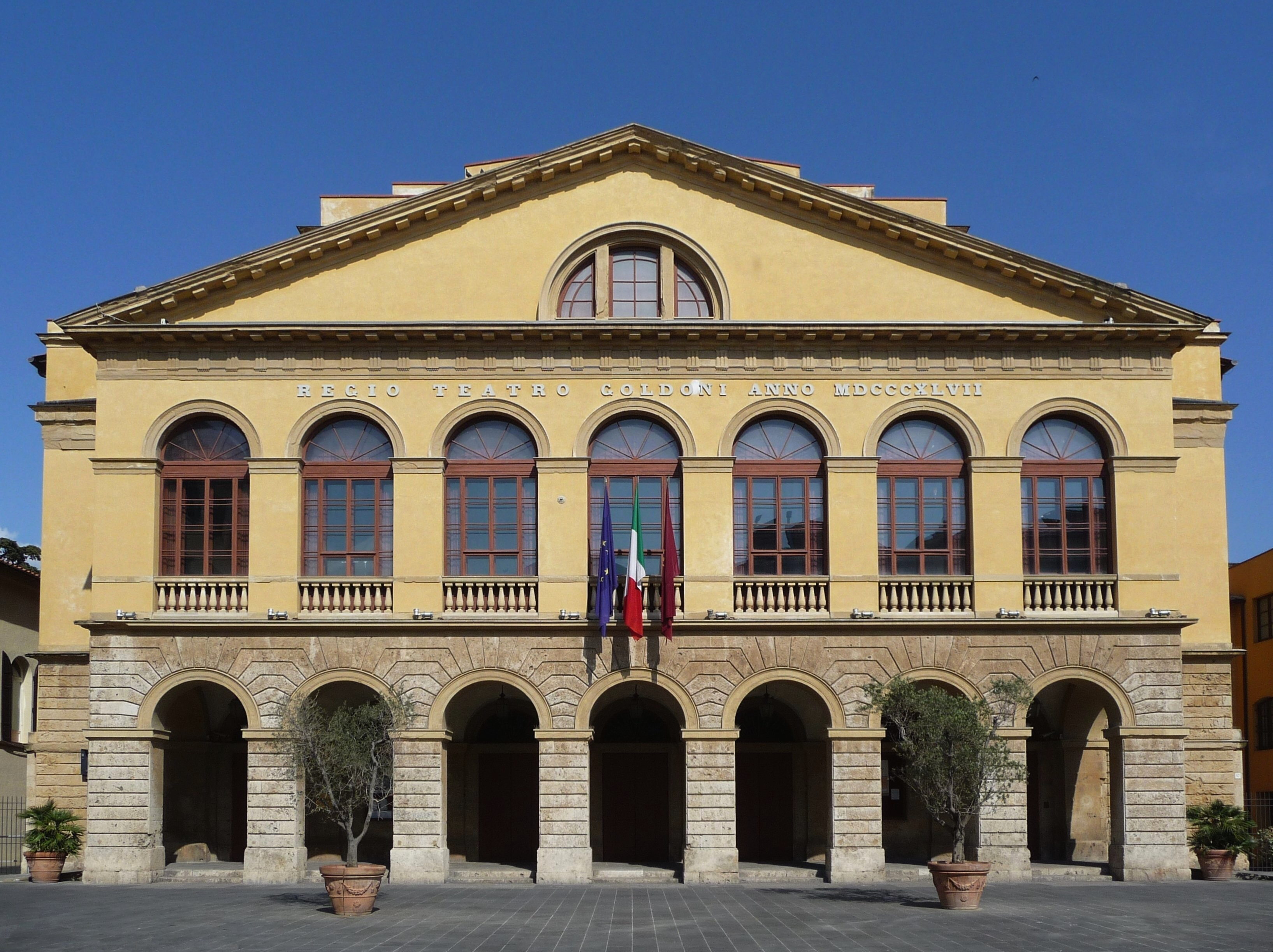 Front of the Goldoni theatre (Livorno, Italy).